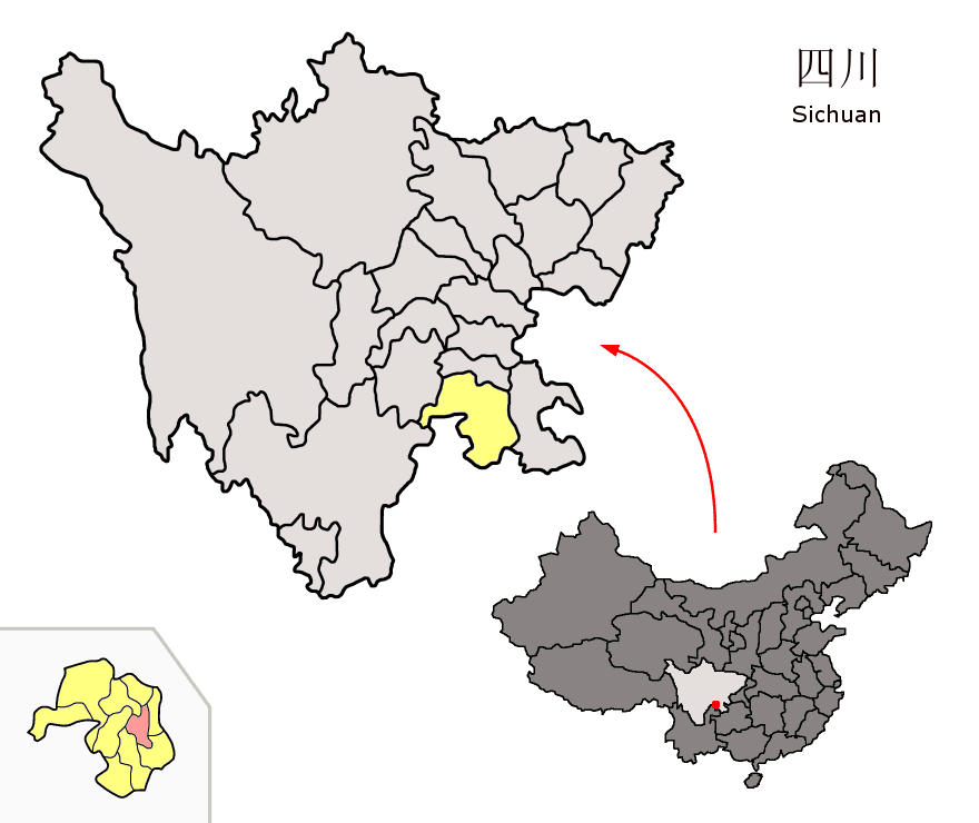 Location of Changning County (pink) and Yibin Prefecture (yellow) within Sichuan province of China Map drawn in october 2007 using various sources, mainly : Sichuan province administrative regions GIS data: 1:1M, County level, 1990 Sichuan Counties map from